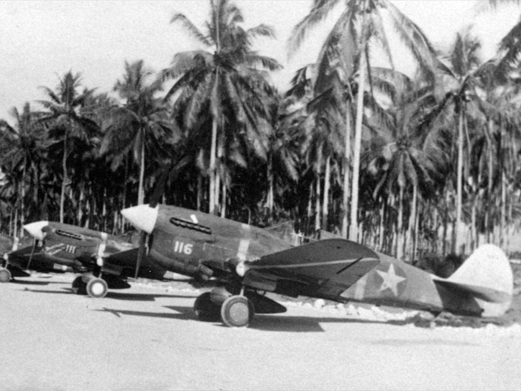 P-40s on the flight line in the Pacific during World war II. By mid-1943, the USAAF was phasing out the P-40F (pictured); the two nearest aircraft, "White 116" and "White 111" were flown by the aces 1Lt Henry E. Matson and 1Lt Jack Bade, 44th Fighter Squadron, at the time part of AirSols, on Guadalcanal. (Courtesy: USAF)